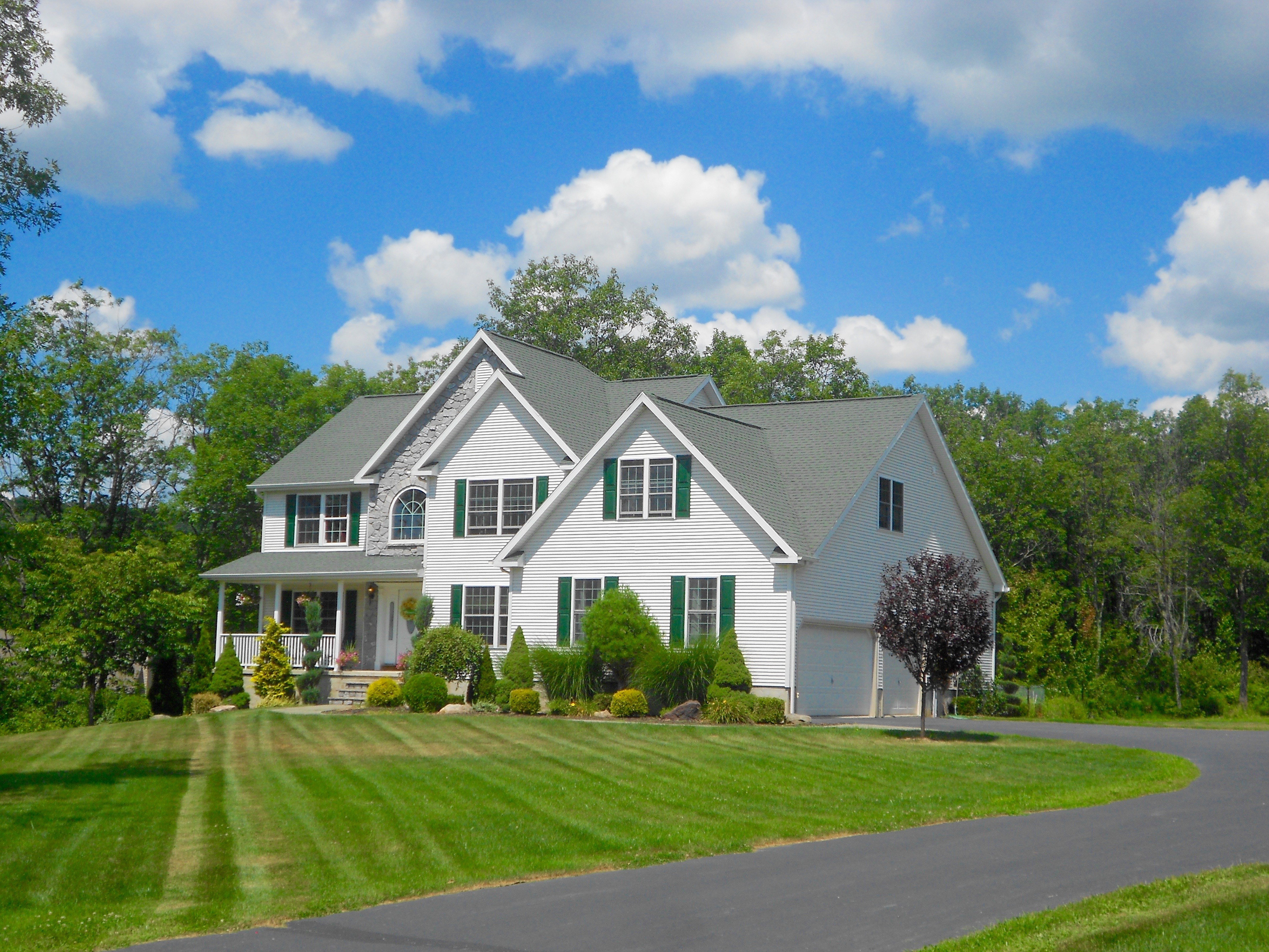 House in a fairly new development in Roaring Brook Township, Lackawanna County, Pennsylvania. The rest of the township looks like all trees and mountains.